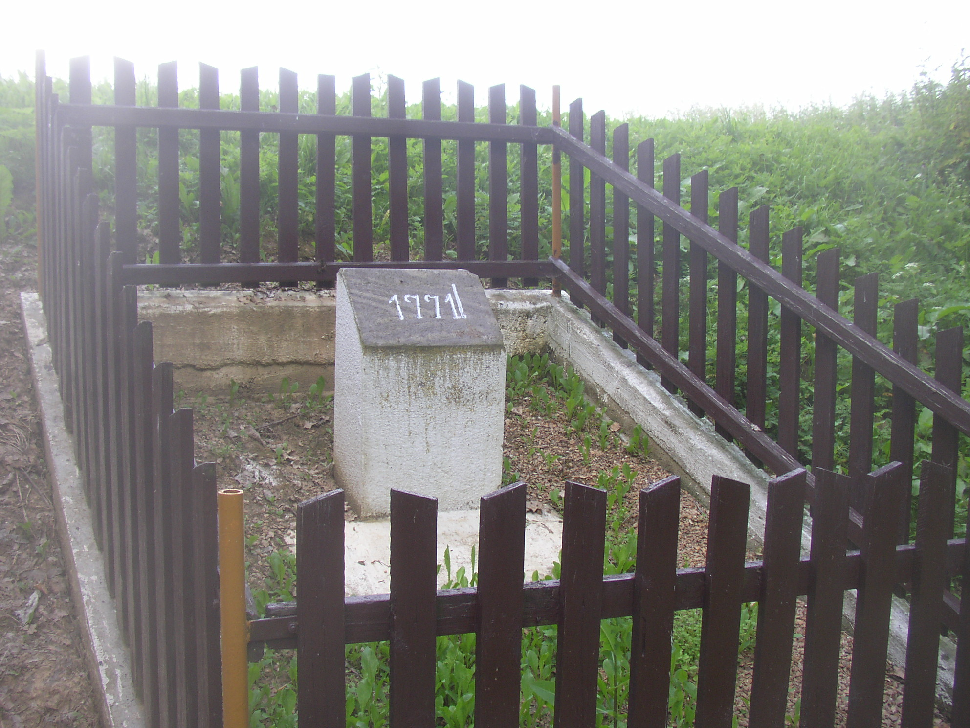 Podmokly, Rokycany District, Czech Republic. Monument commemorating the site where enormous (~7000 pieces) depot of ancient Celtic golden coins was discovered on June 12, 1771.